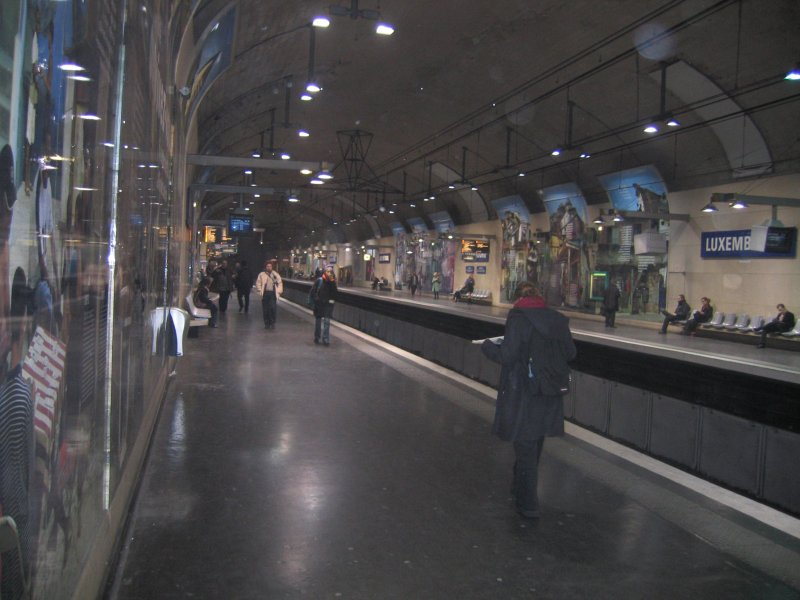 Luxembourg on the RER B. (Author: Metropolitan)